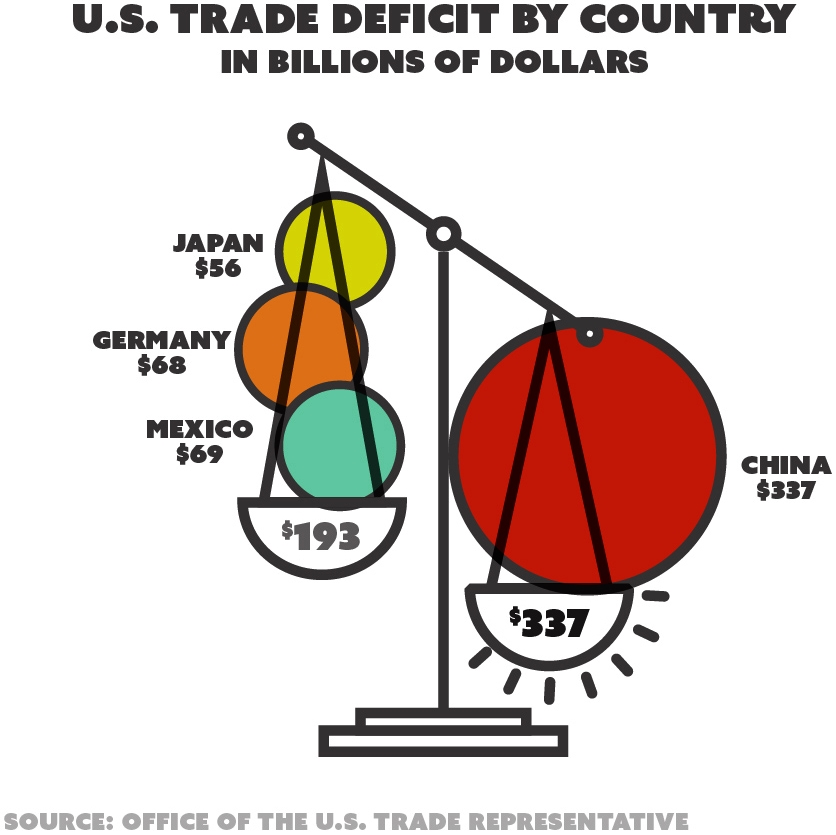 The outsized trade deficit in goods and services with China in 2017 was $337 billion, according to the Department of Commerce’s Bureau of Economic Analysis.